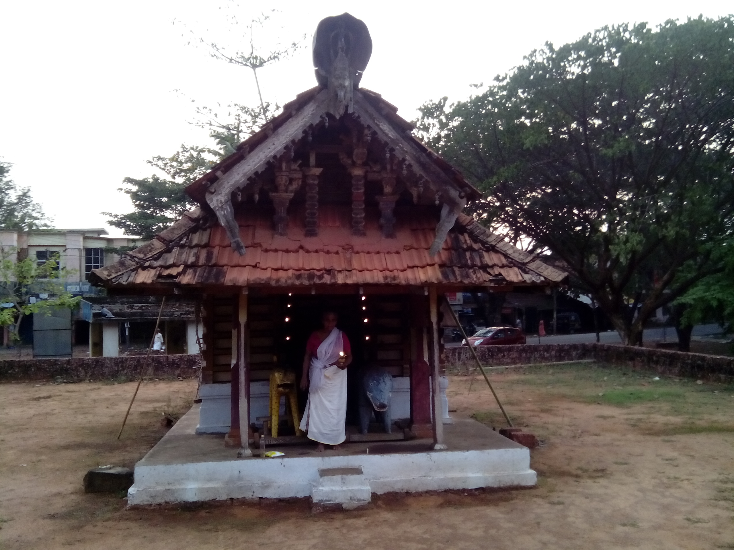 A theyyam performing kovil / Temple near Chervathur, Kasaragod Kerala